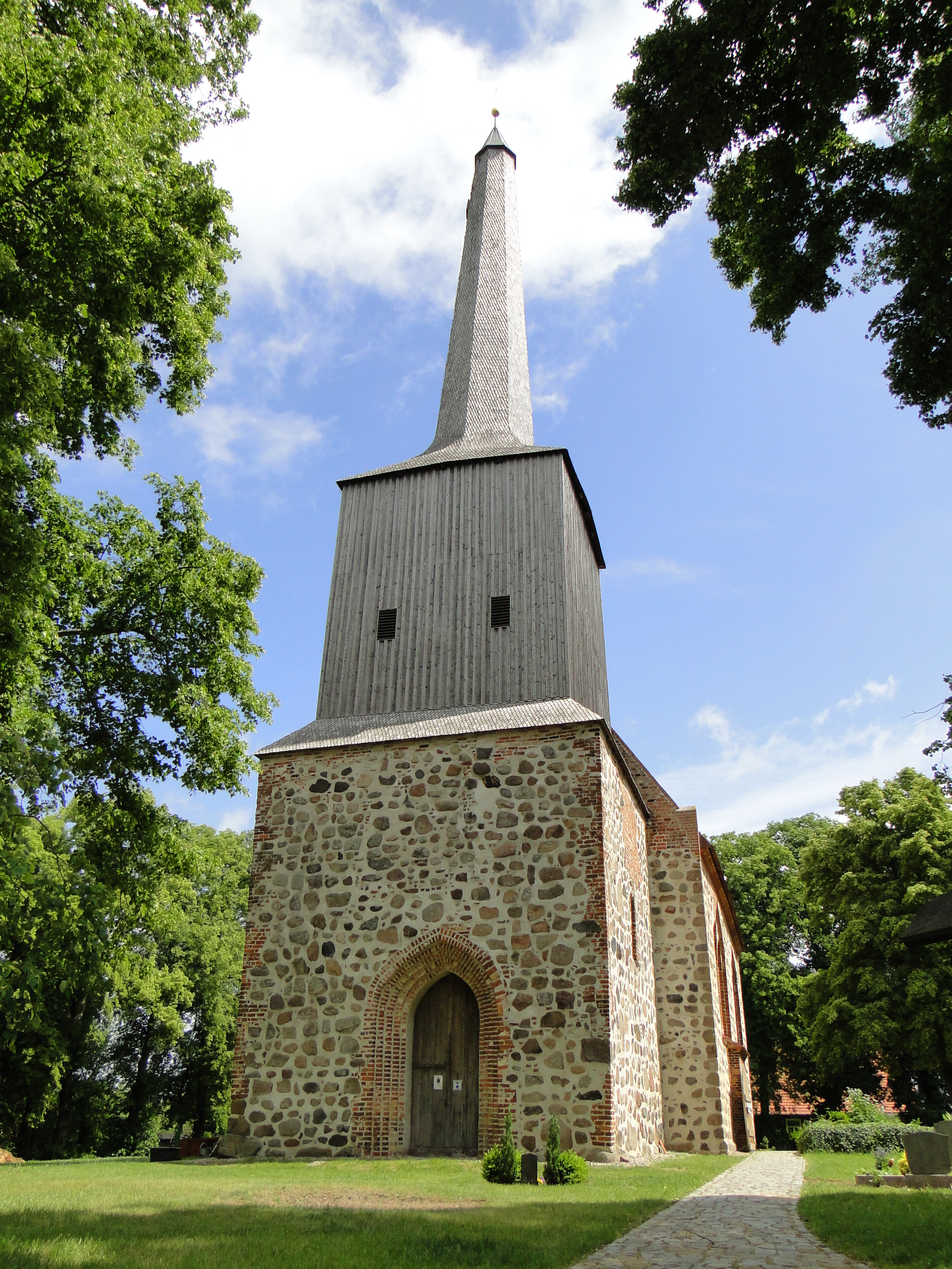 Church in Ruchow in the district Parchim, Mecklenburg-Vorpommern, Germany